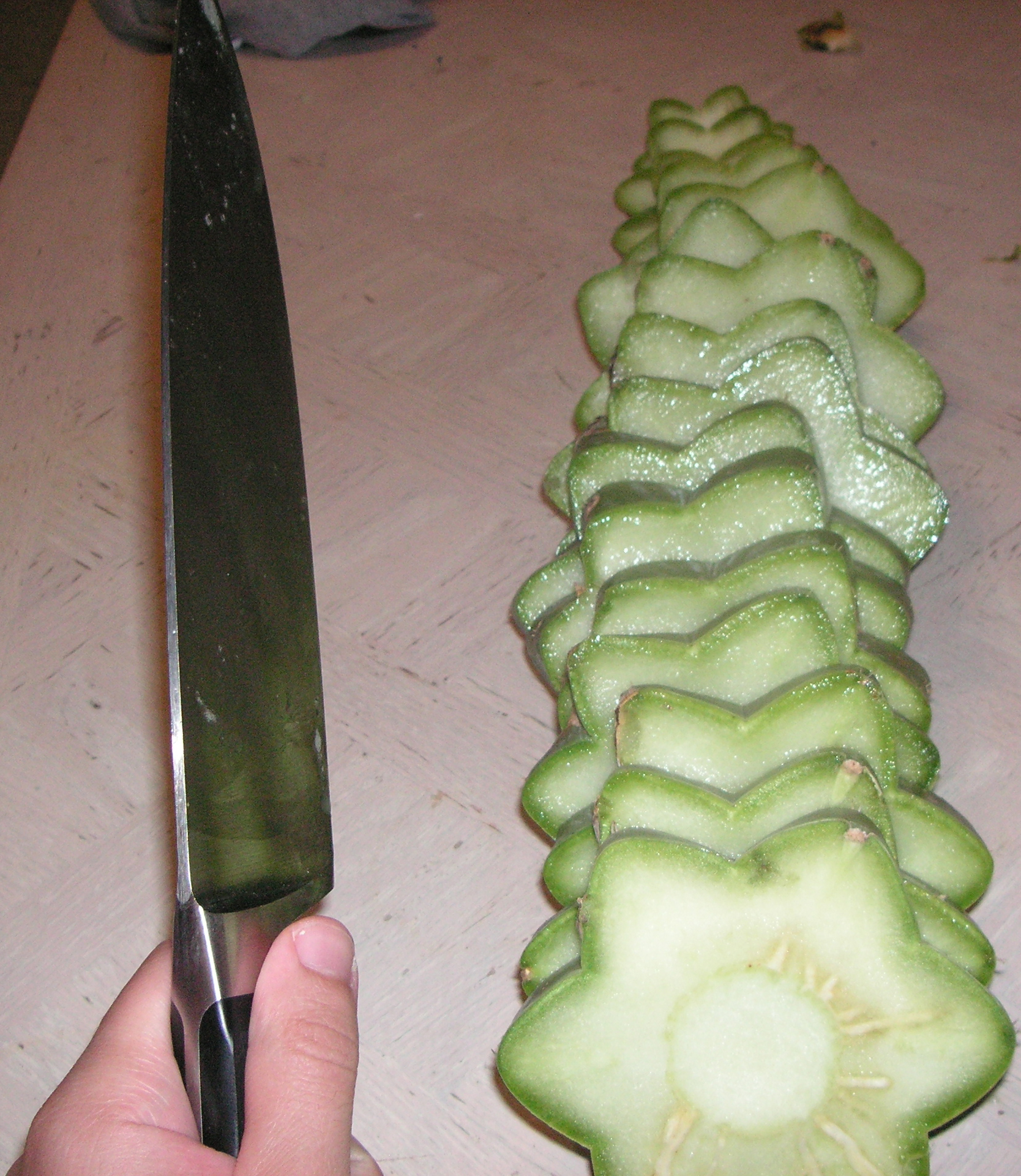 San pedro sliced into stars.Then blended, then boiled for 4 hours, then strained, then reduced, then drank, then blastoff into mescaline hyperspace.